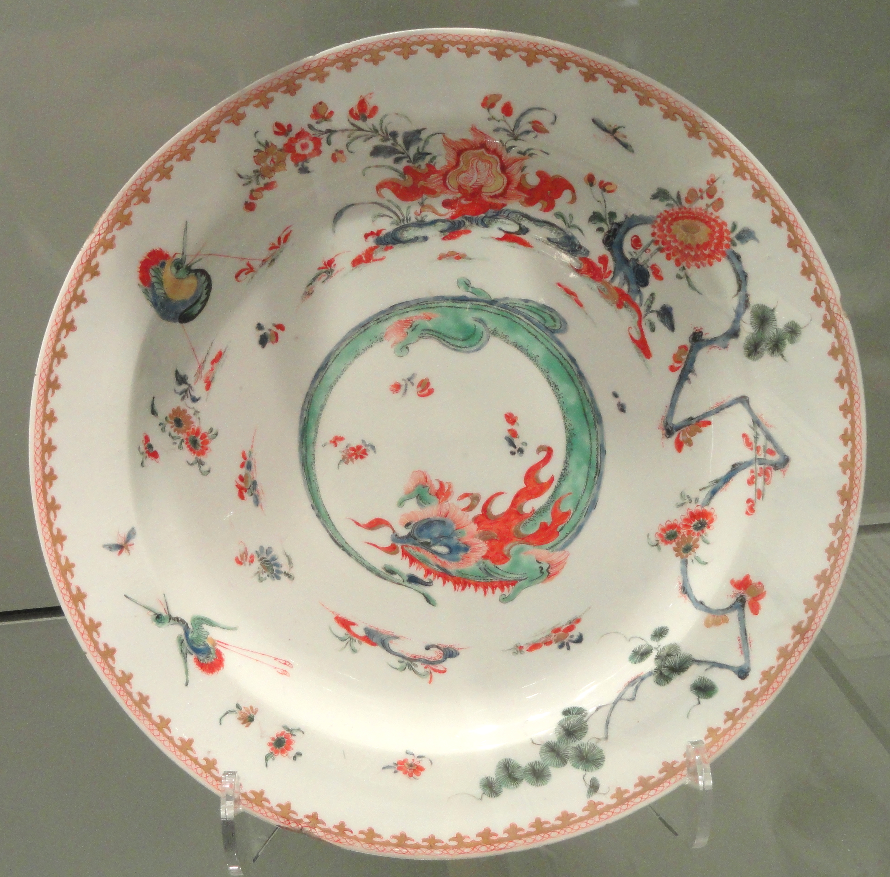 Exhibit in the Gardiner Museum, Toronto, Ontario, Canada. This artwork is in the public domain because the artist died more than 70 years ago.